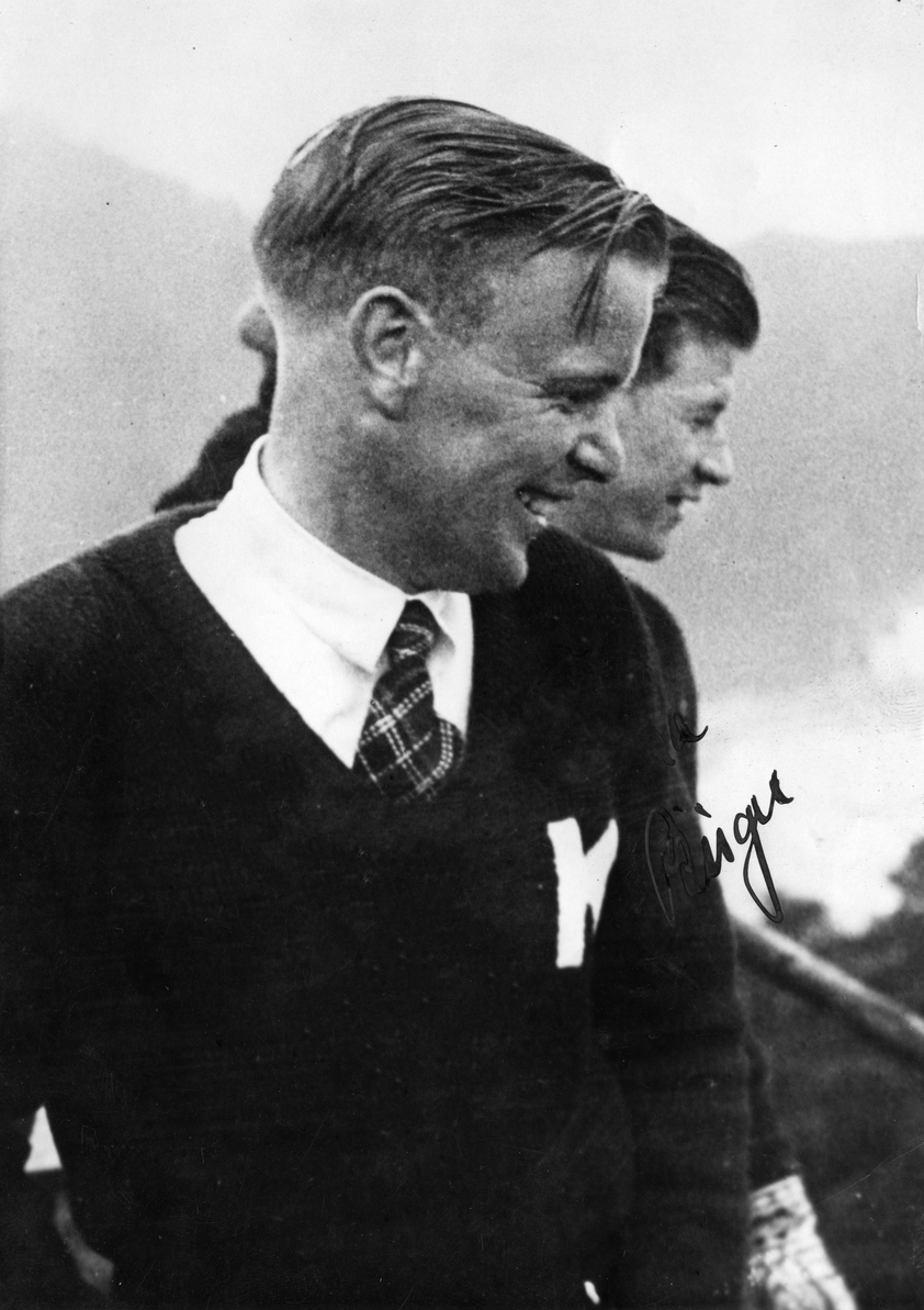 Sigmund Ruud in Planica